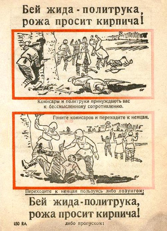 Kill the Jew - political commisssar, the mug asks for a brick!